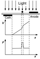 Shadow band within a photoconductor changes conductivity and field within the Band and thereby the boundary density at the right side of the band, i.e., it acts as a pseudo-cathode. Reference: K. W. Böer and G. Döhler, Phys. Rev. 186, 793 (1969)